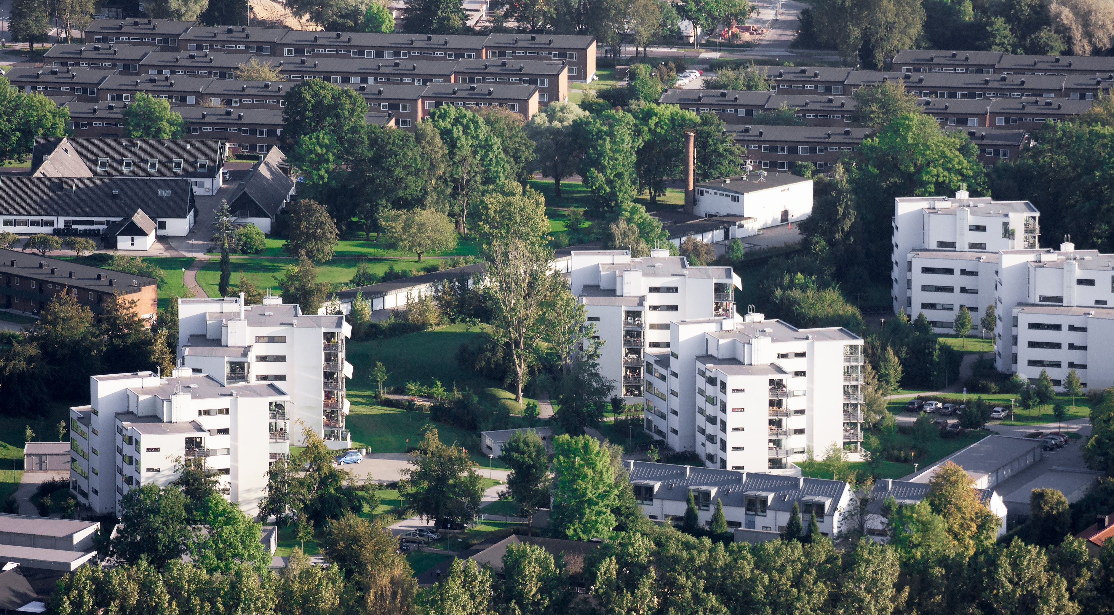 Residential housing in Lund, Sweden.